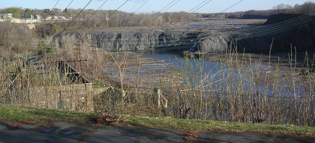 Photo of Cohoes Falls April 23, 2005. The water level is down to a trickle.